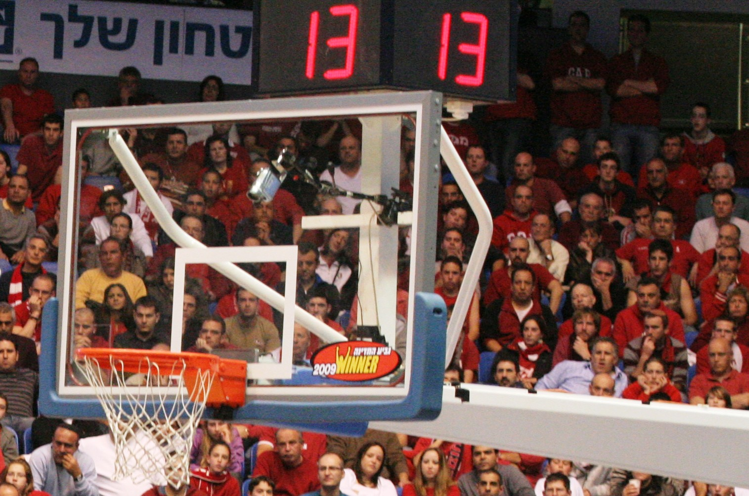 Hapoel Jerusalem Basketball at the Israel semi-final game